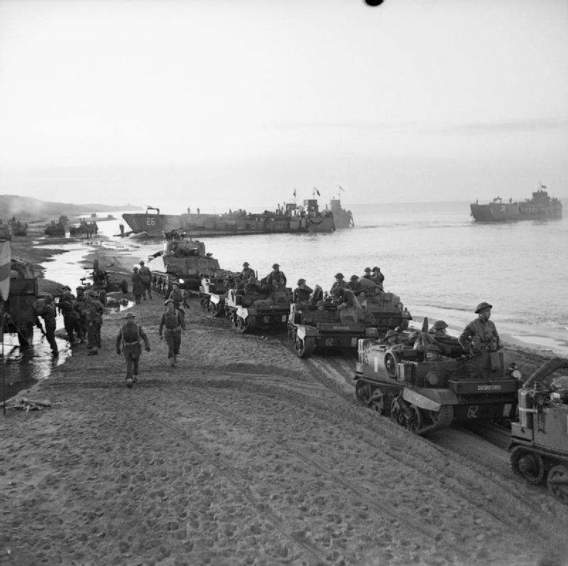 The British Army in Italy 1944 Universal carriers and a Sherman tank comes ashore from a landing craft at Anzio in Operation Shingle — on 22 January 1944.